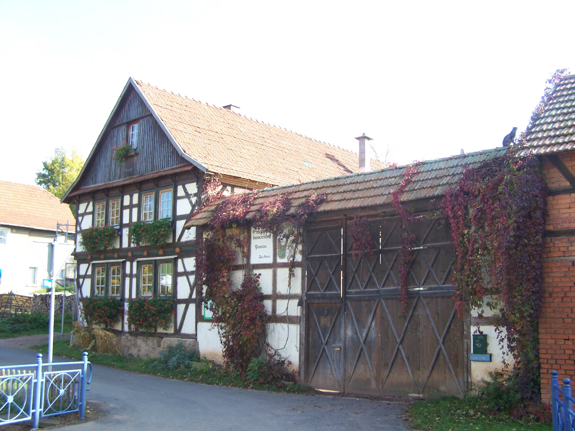 To make farm holidays in Kupfersuhl.